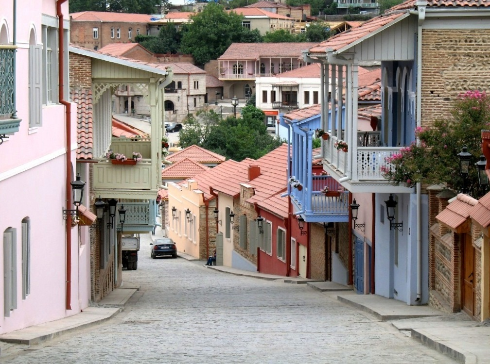 Sighnaghi